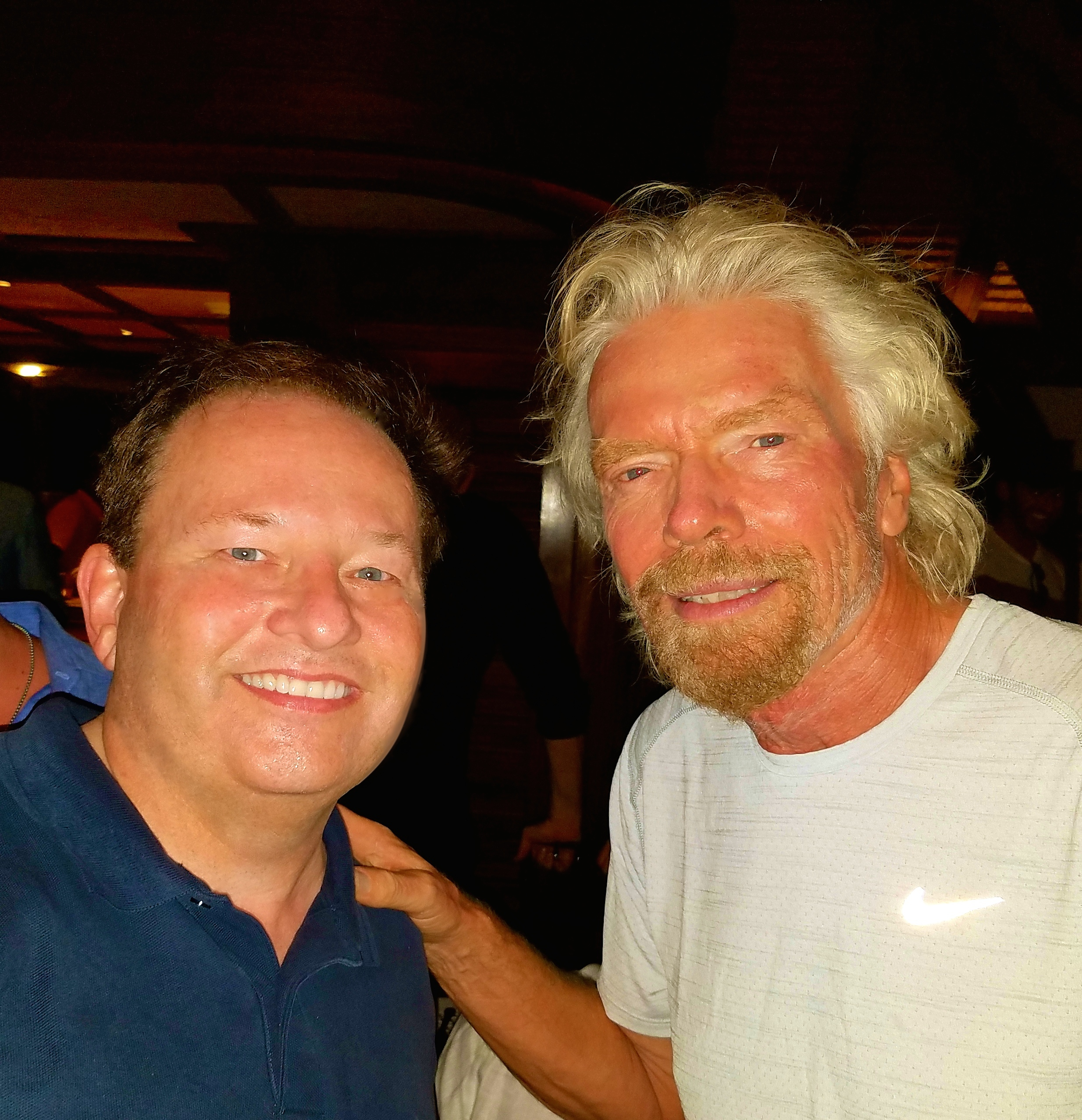 Wendell Brown and Sir Richard Branson on Necker Island at the dinner party for Branson's 2017 XTC event